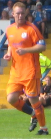 Steve Watson playing for Sheffield Wednesday against Bury F.C at Gigg Lane